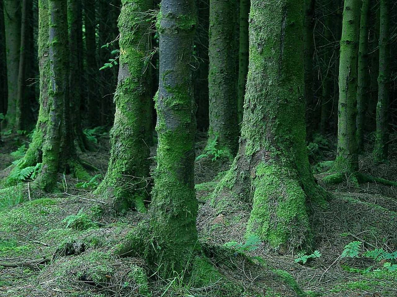 Image title: Dark mossy forest Image from Public domain images website